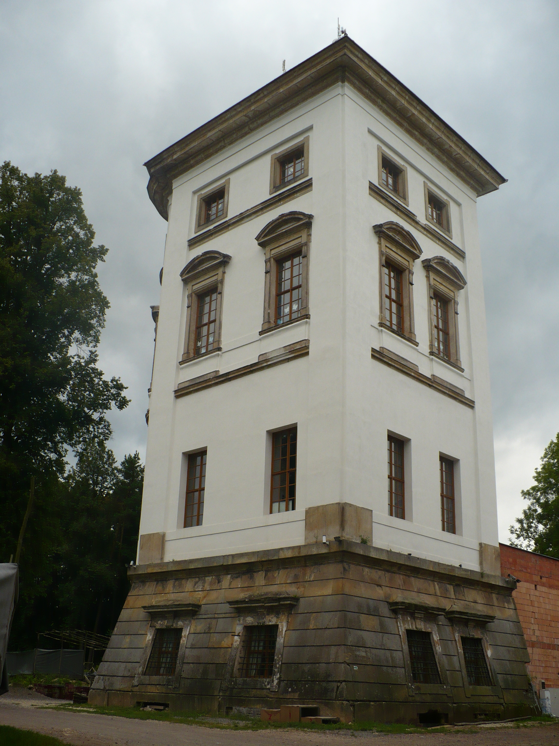 Zámeček (former Liechenstein-family castle) near Rudoltice, Czech Republic